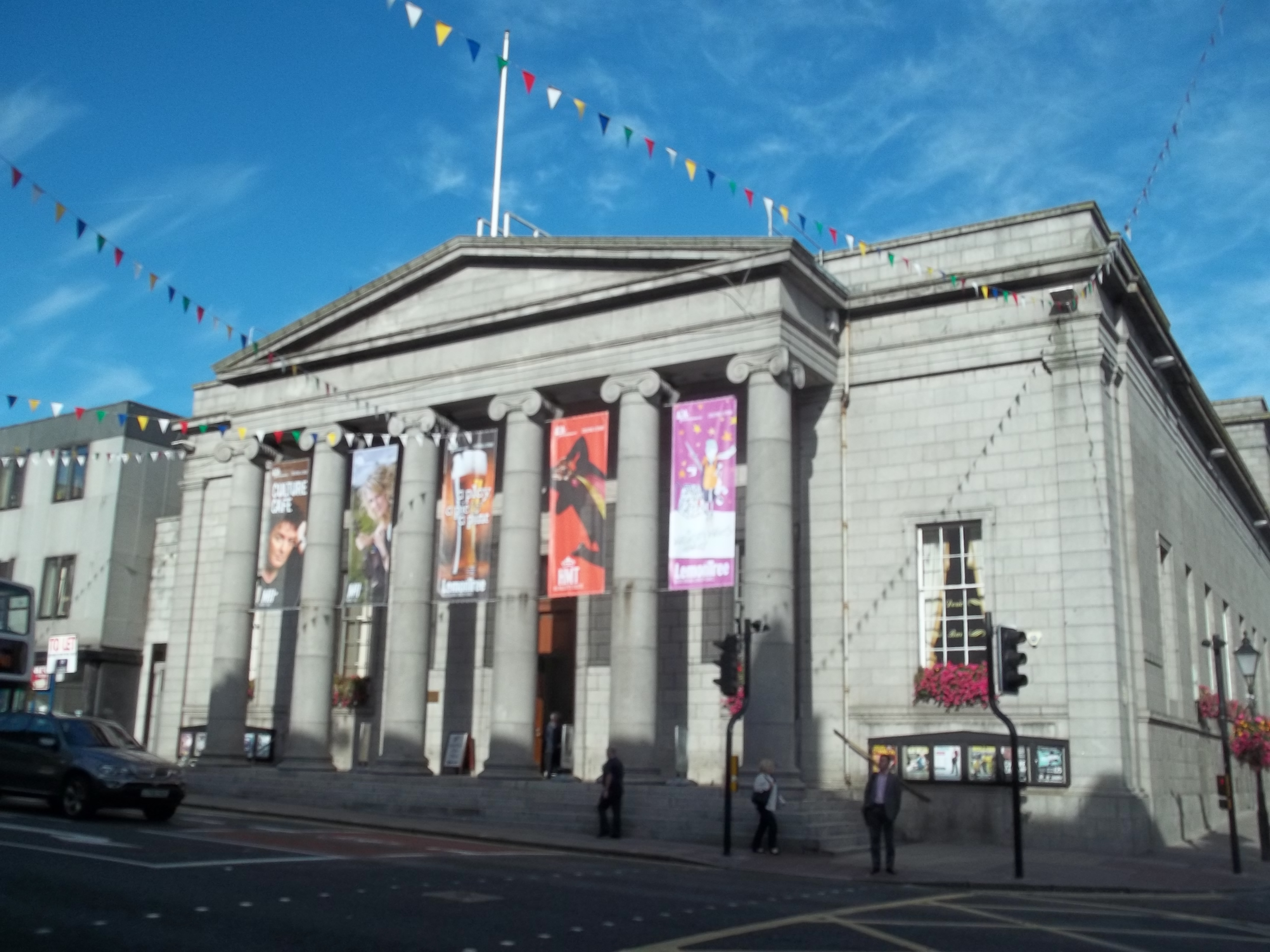 The Music Hall, Union Street, Aberdeen